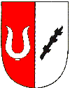 Coat of arms of Částkov.